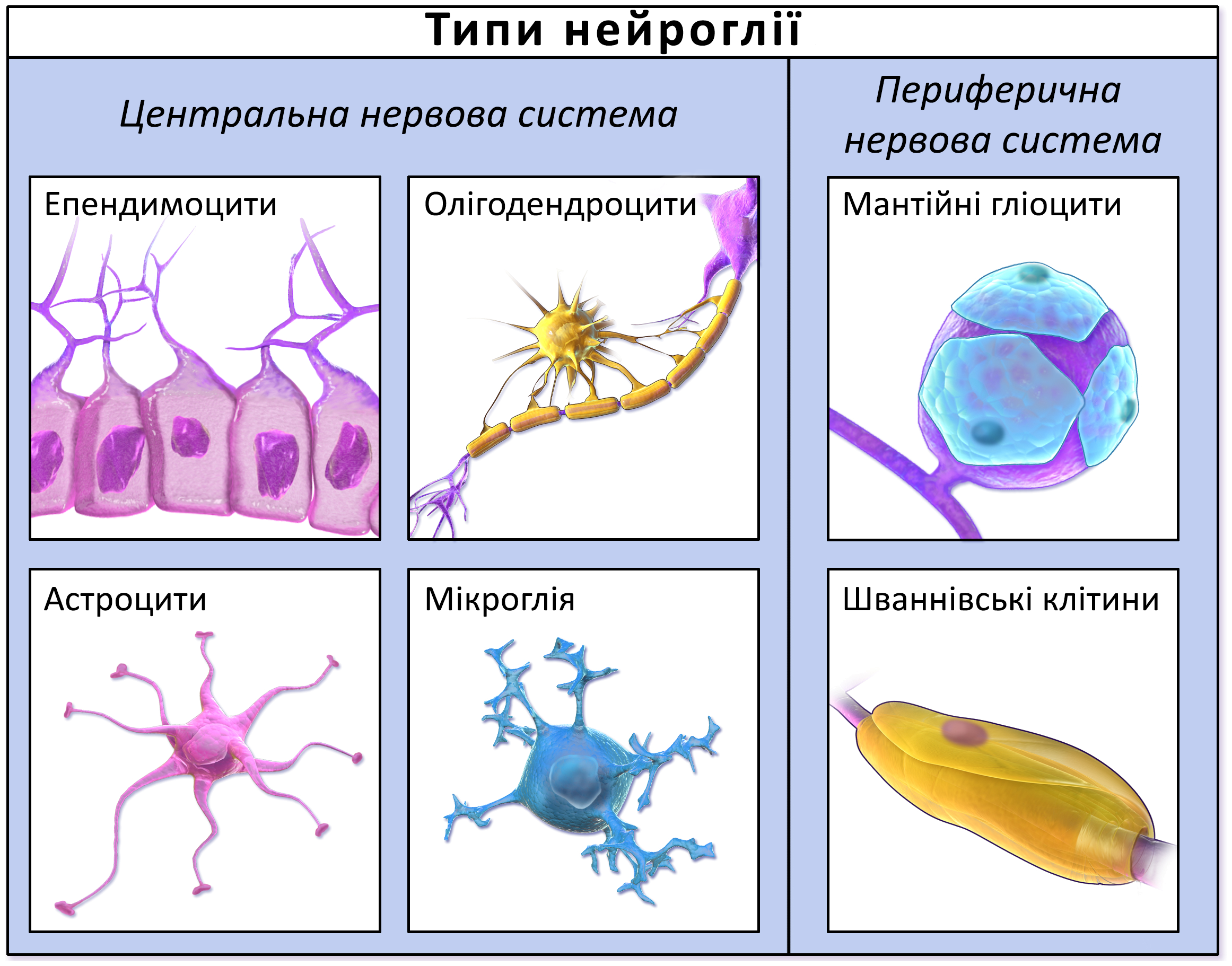 Types of Neuroglia. See a related animation of this medical topic. Ukrainion translation.